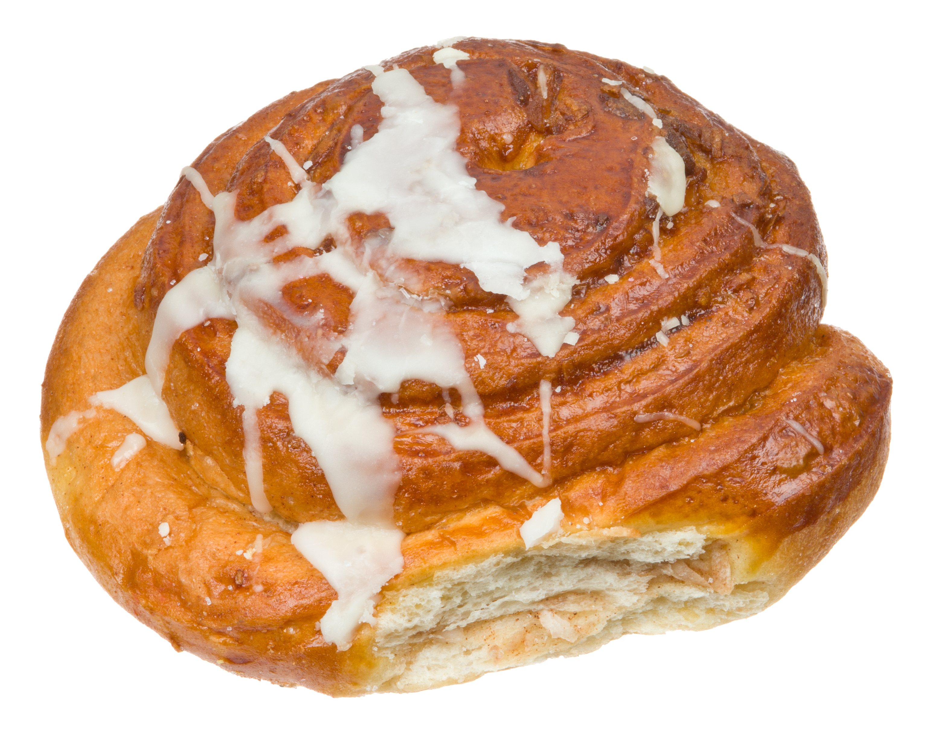 A cinnamon roll with white icing, bought from an American supermarket. Made daily and sold individually in a large case with other donuts and pastries.